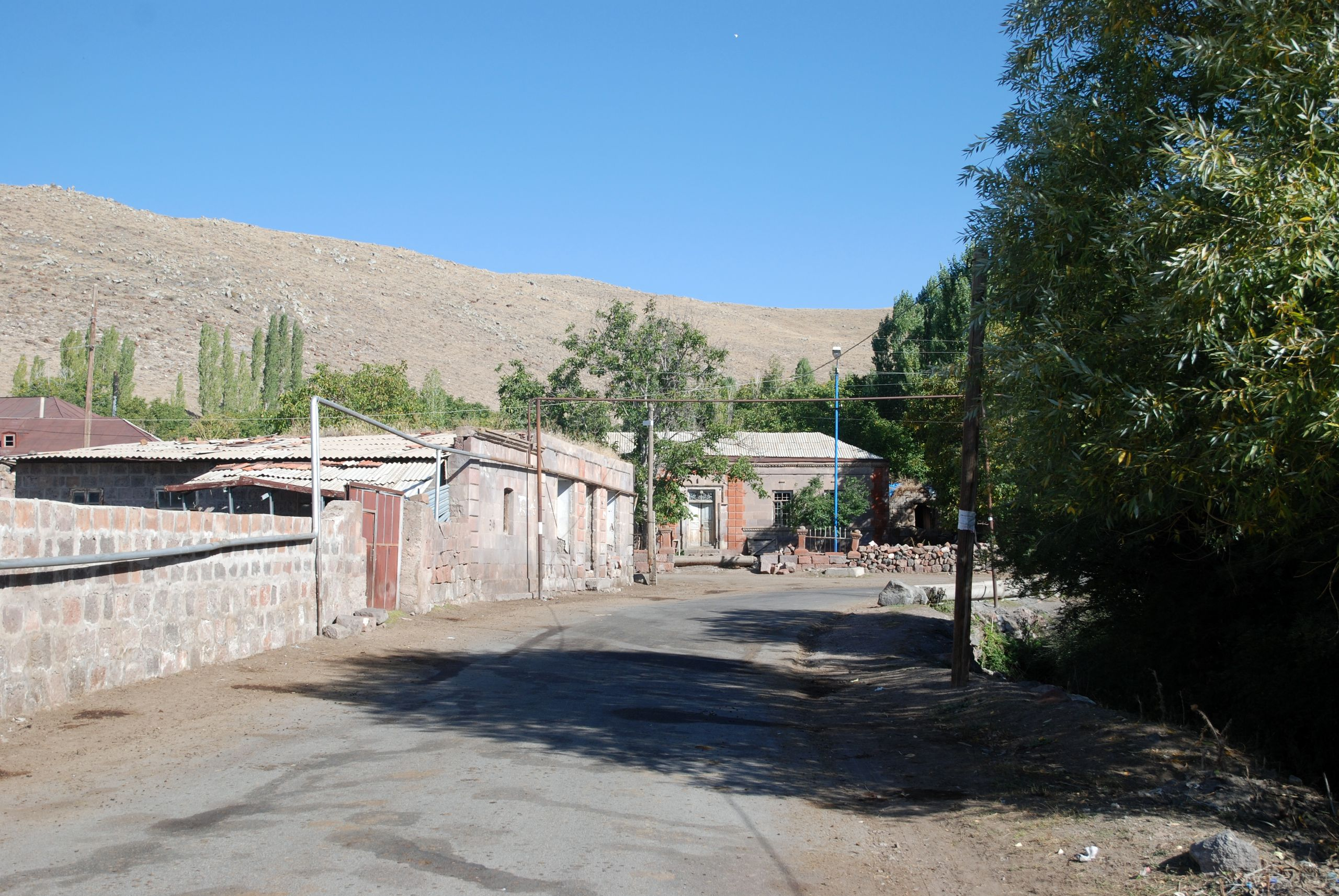 Mastara, village center